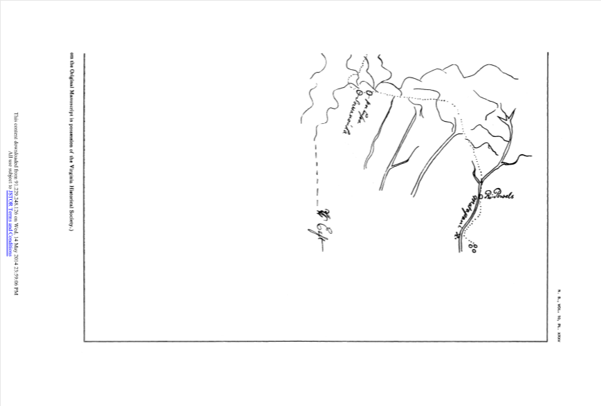 This photo shows the route taken by Lamhatty.